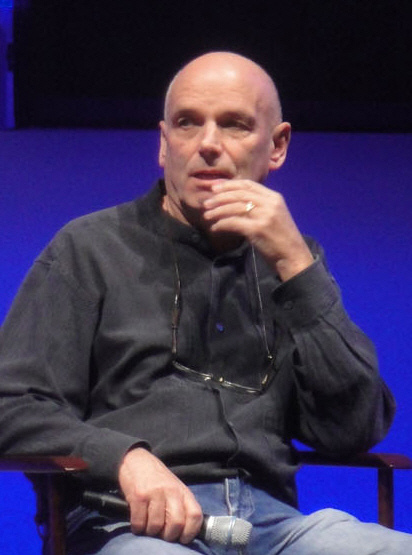 CES 2012 - Panasonic James Bond film 50th Anniversary panel with directors John Glen, Michael Apted, and Martin Campbell photo 2012 taken by Doug Kline If you're interested in higher resolution versions of my images, contact me via my profile page.